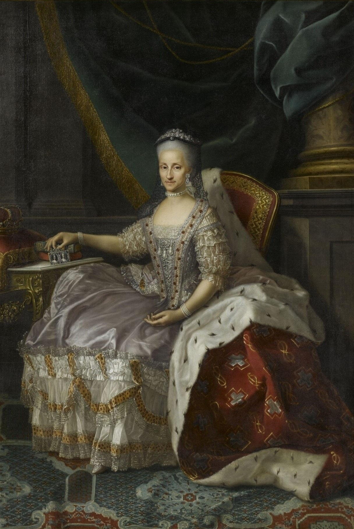 Portrait of Maria Antonia of Spain (1729-1785), Queen of Sardinia holding two portraits of her daughters at the French court (Countesses of Provence and Artois) on her robes are the Savoyard royal knot.